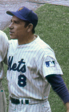 New York Mets coach Yogi Berra at camera day 1969, Shea Stadium.